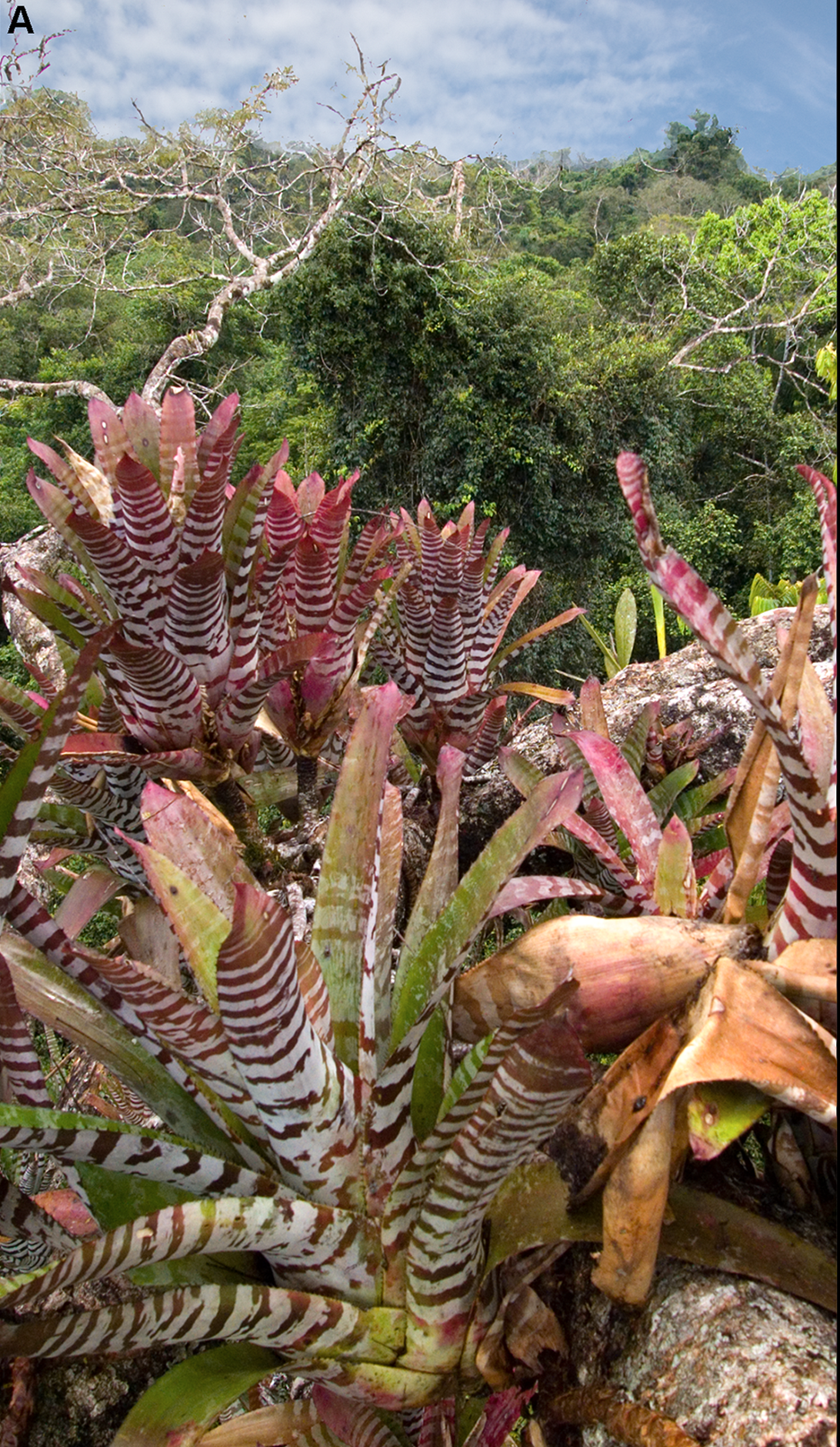 Aechmea zebrina in situ. Figure 1A in McCracken, S. F., and M. R. J. Forstner. 2014. Oil road effects on the anuran community of a high canopy tank bromeliad (Aechmea zebrina) in the upper Amazon Basin, Ecuador. PLoS ONE 9:e85470.